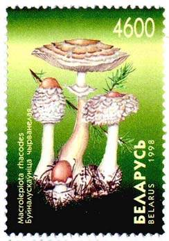 Stamp of Belarus